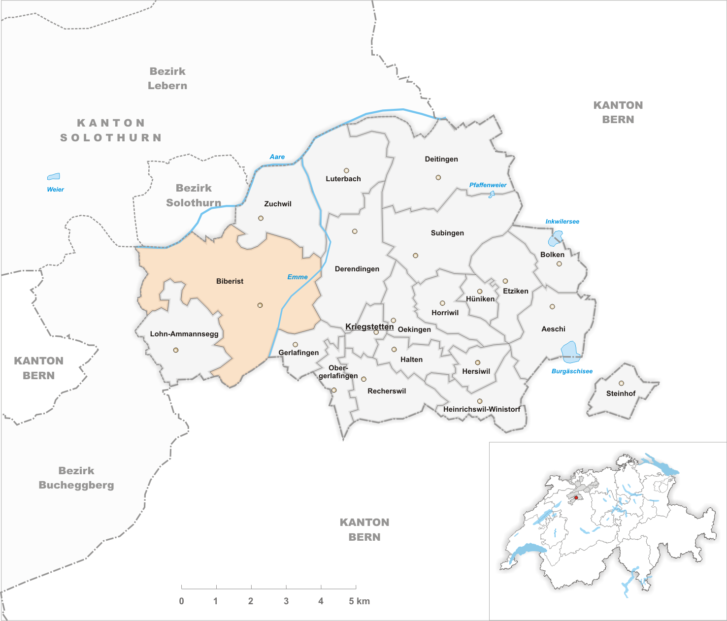 Municipality Biberist